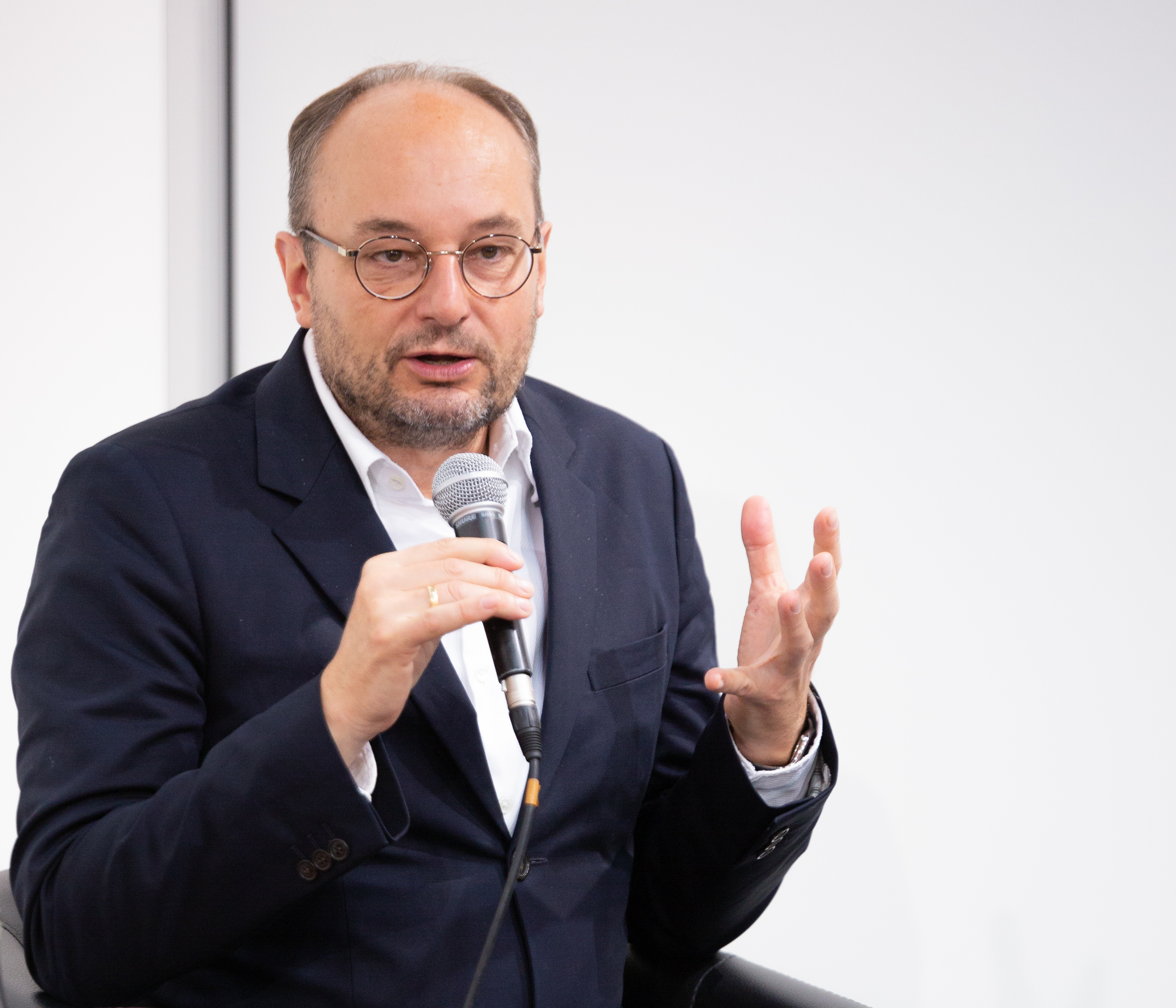 Nils Minkmar at the Frankfurt Book Fair 2018